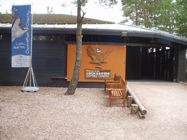 RSPB Osprey Centre. The RSPB Osprey Centre at Loch Garten. A great place to see the bird!